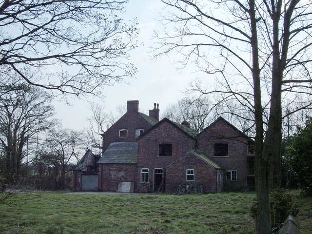 Hulme Hall Hulme Hall is a derelict 15th century farmhouse and a Grade II* listed building. It is now within an area of brine extraction and is owned by Ineos Chlor (formerly ICI). Its restoration is doubtful whilst the building remains in its present ownership.